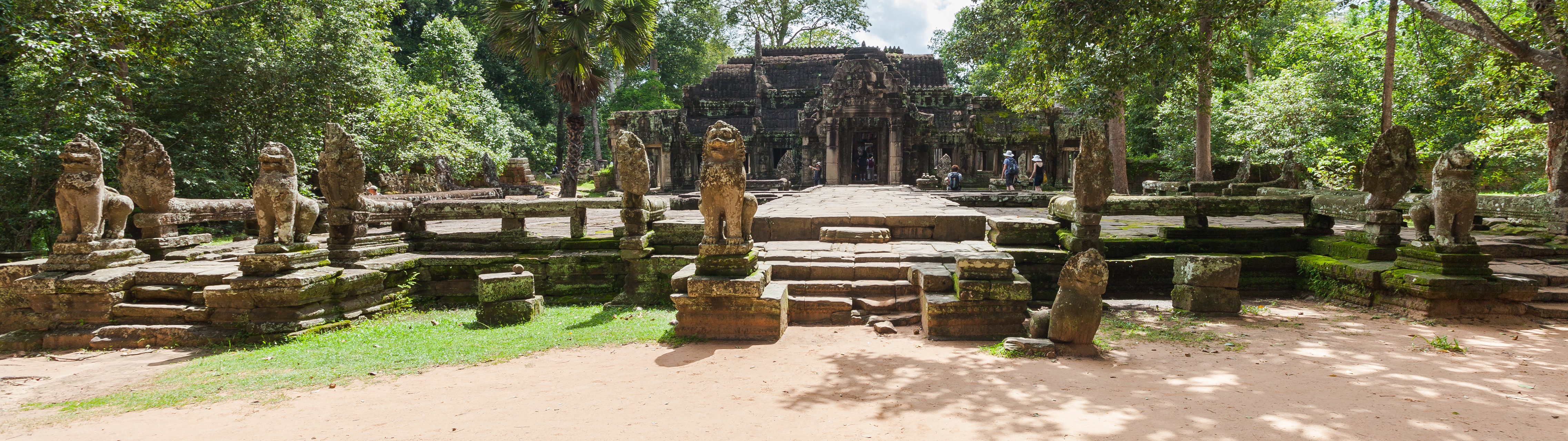 Banteay Kdei, Angkor, Cambodia